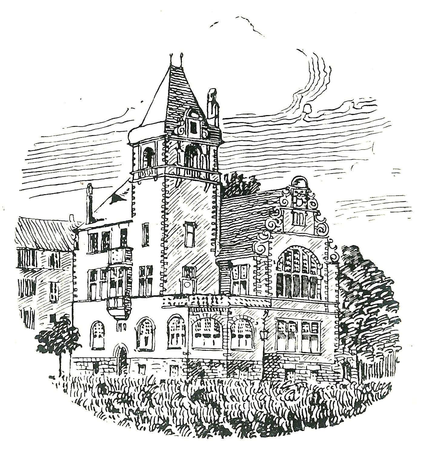 Former house of student fraternity Corps Palaio-Alsatia Straßburg (Alsatia), Gailerstrasse 2